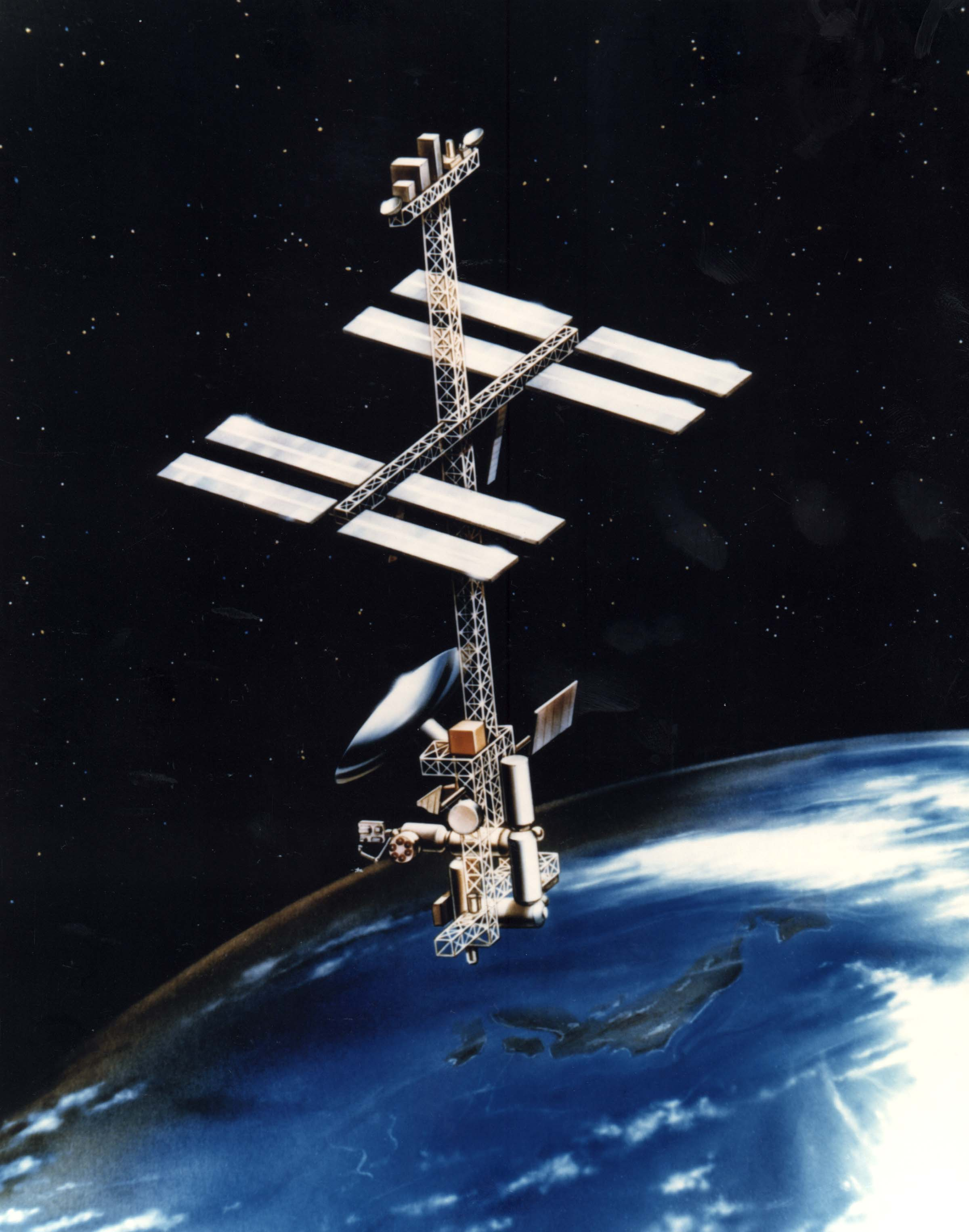 This is an artist's conception of the proposed "Power Tower" space station configuration, shown with the Japanese Experiment Module attached. This model and several others were examined before deciding on the Space Station Freedom structure that was later abandoned in favor of the International Space Station.